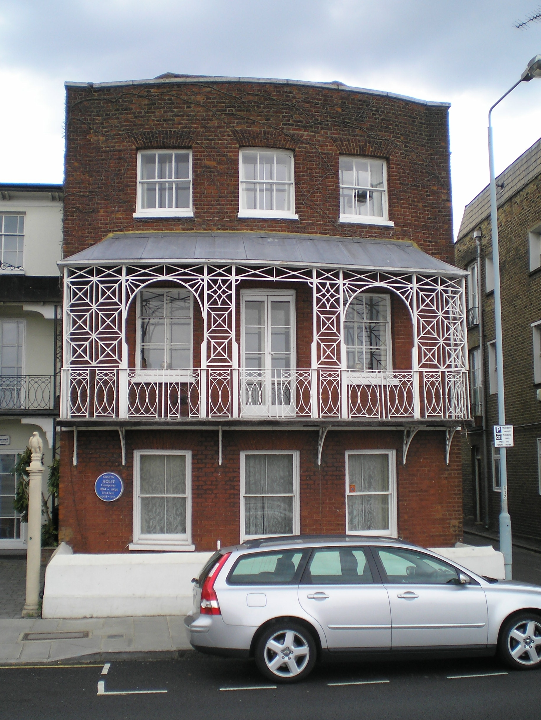 The house where Gustav Holst lived whilst in Barnes, London, UK. This is marked with a blue plaque on the building.